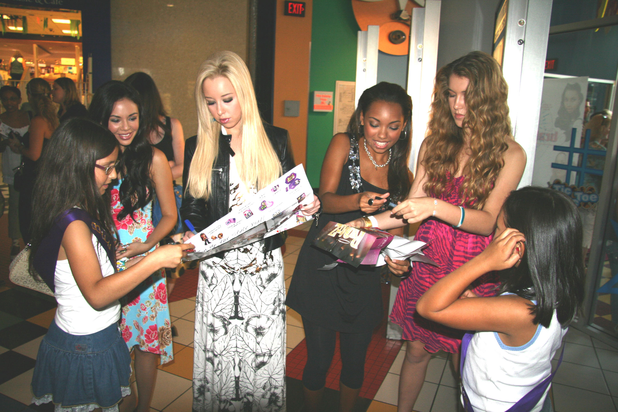 Cast of Bratz at the Canadian premiere, in Toronto.